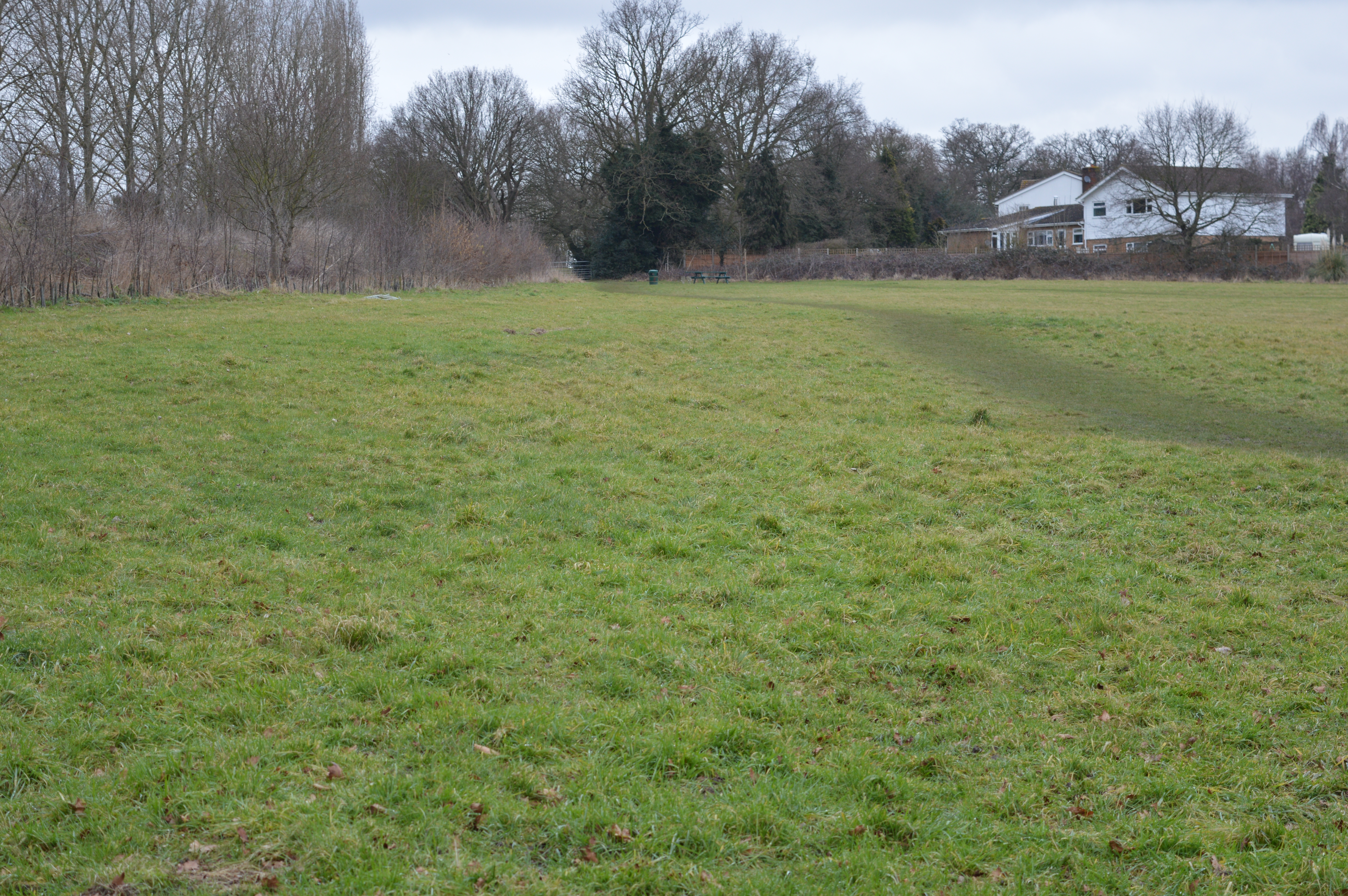 Top Field, part of Top Field and Cozens Grove Local Nature Reserve in Wormley, Hertfordshire